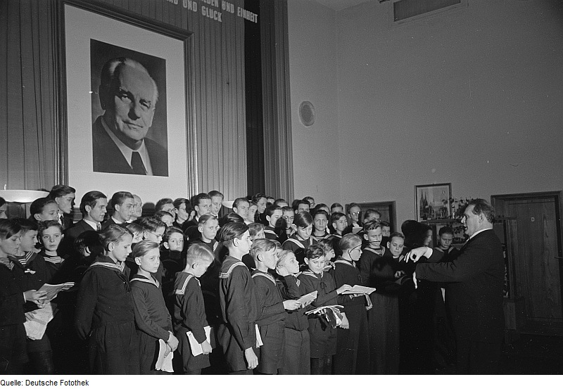 Original image description from the Deutsche Fotothek Thomanerchor